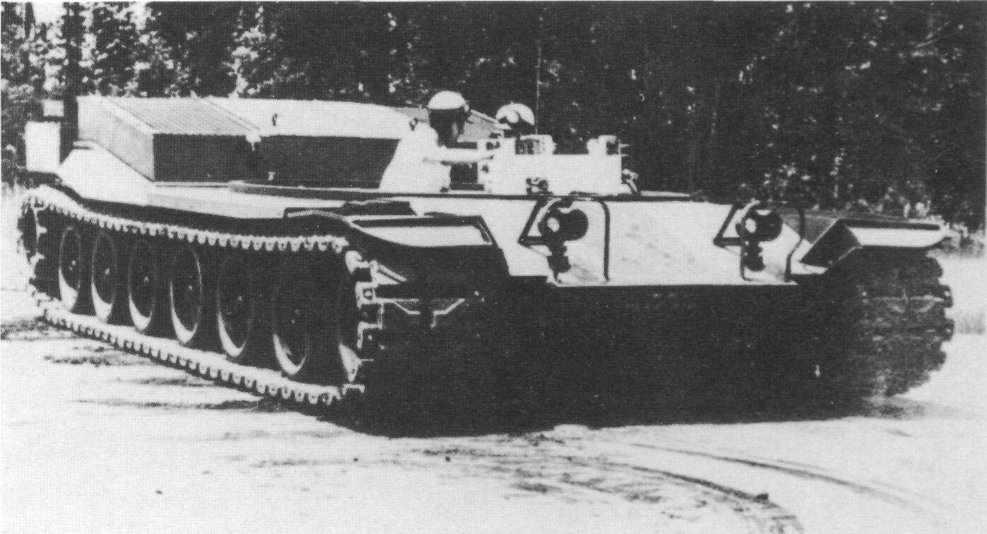 MBT-70 prototype automotive test.